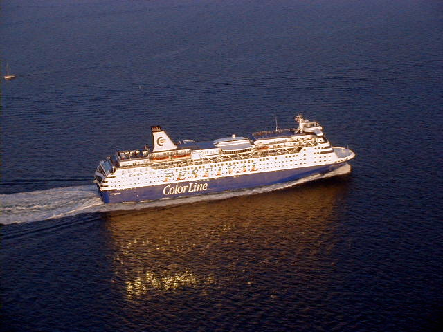 MS Color Festival